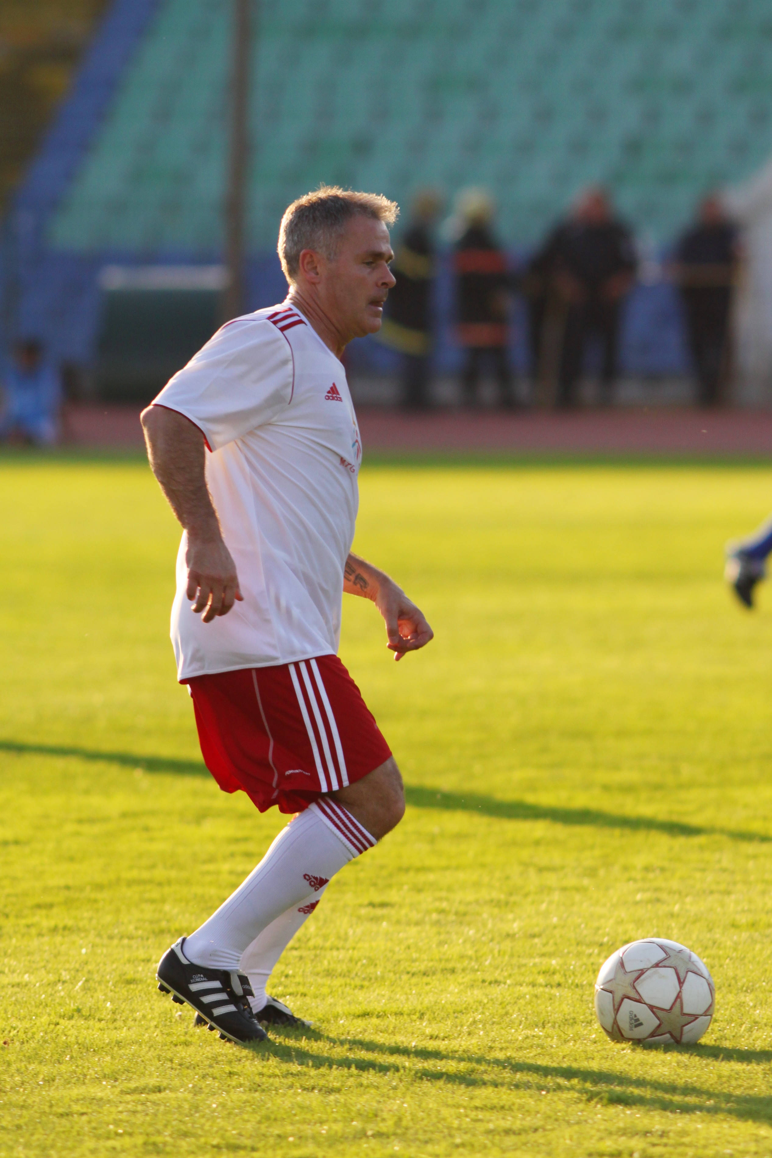 Anders Erik Limpar (Hungarian: Limpár András) (born September 24, 1965 in Solna) is a Swedish former footballer of Hungarian origin, who played as a winger. He has played for clubs in Switzerland, Sweden, Italy, England, and the United States.